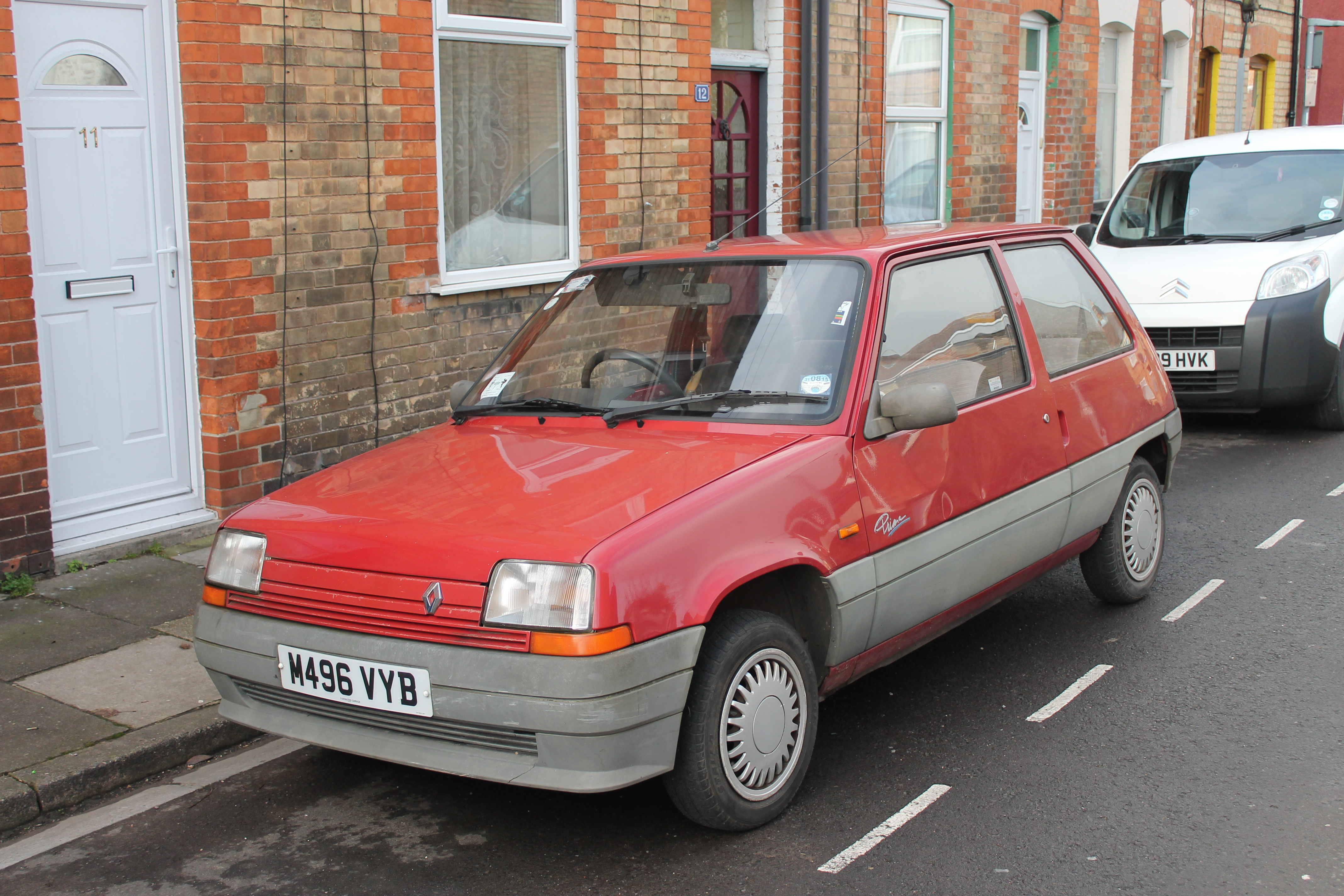 A pretty late one for here. All R5 s I see still around seem to be Campus Prima spec. Registration number: M496 VYB ✔ Taxed Tax due: 01 September 2015 ✔ MOT Expires: 27 June 2015